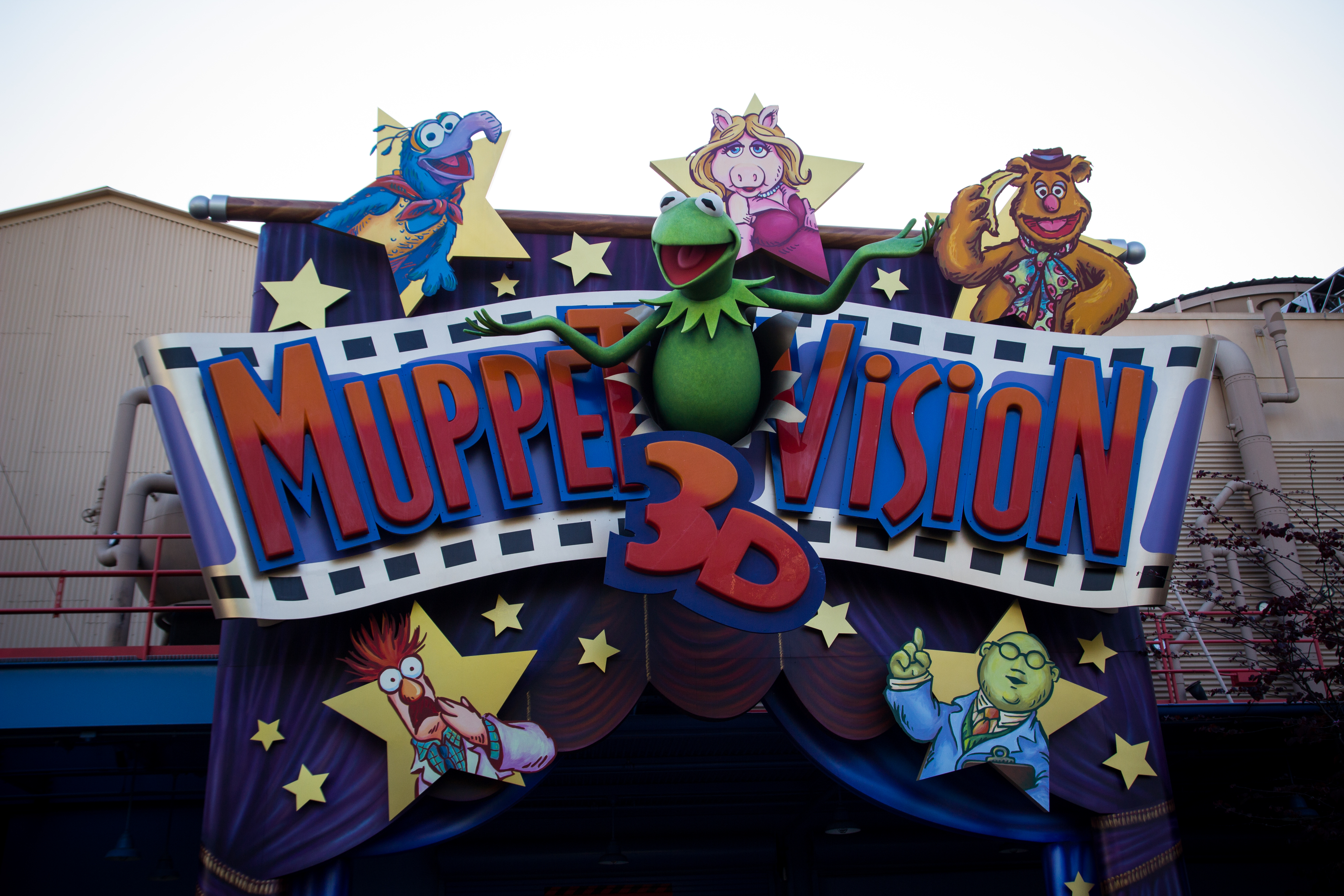 Signage for Muppet Vision in Hollywood Land at Disney California Adventure.